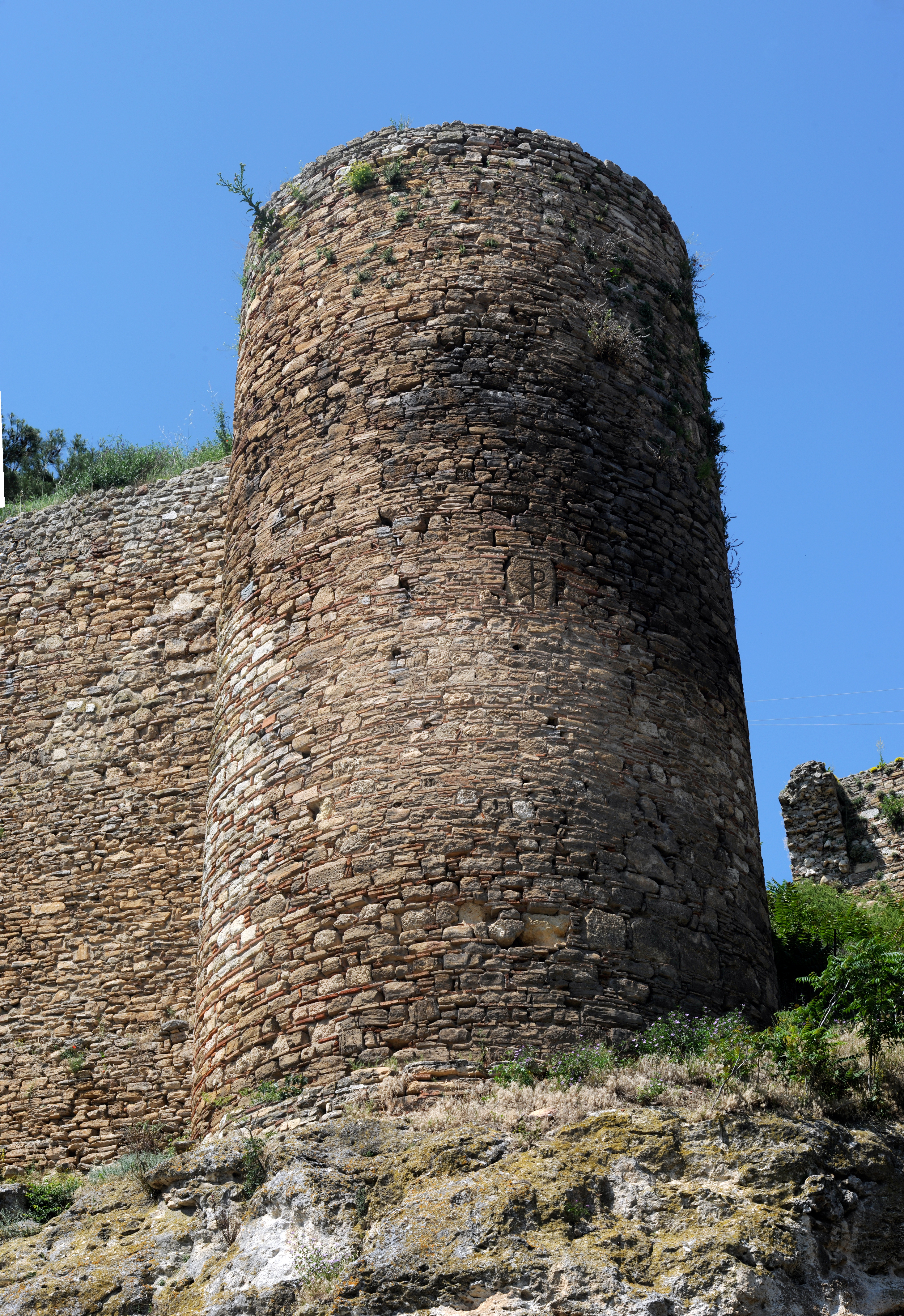 Vasilopoula tower Kale Didymoteixo, Evros, Greece.